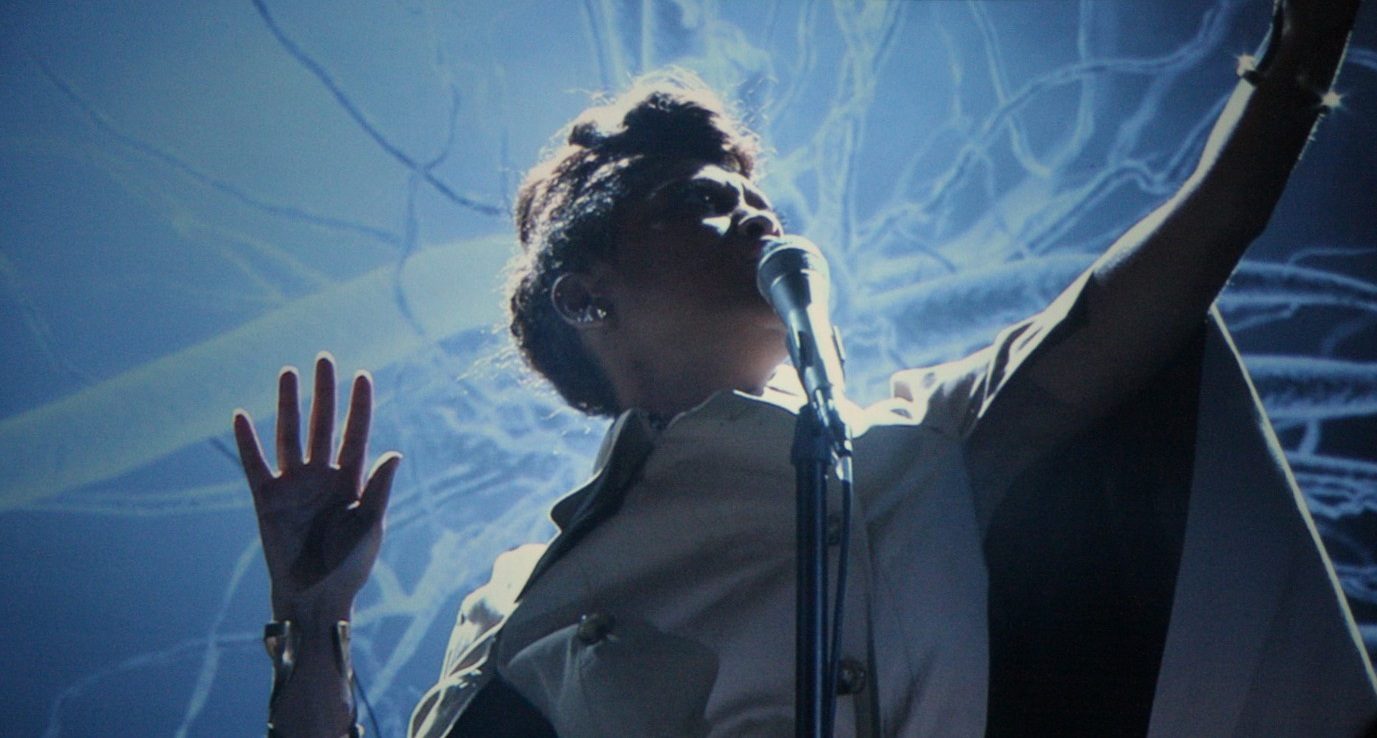 Erykah Badu at Umbria Jazz 2012 (Perugia).